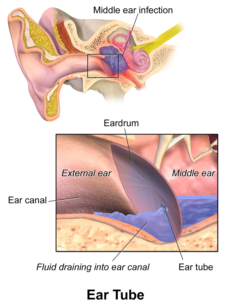 Ear Tube. See a full animation of this medical topic.